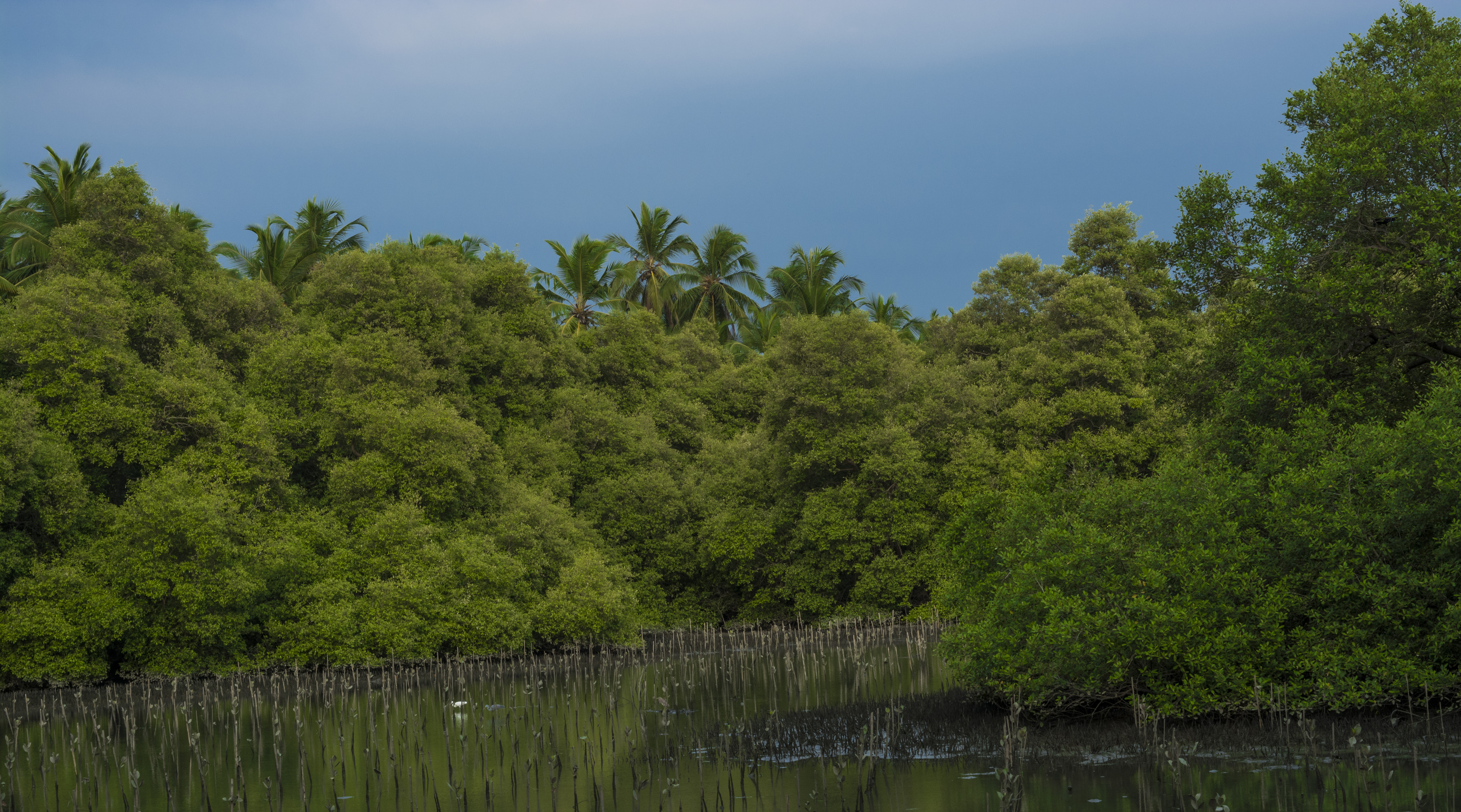 Mangrove Reserve Forest at Muzhappilangad